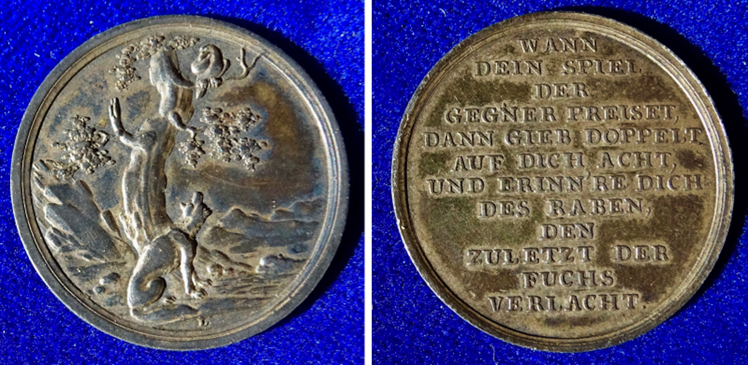 18th Century, German Whist Game Silver Token showing the Fable The Fox and the Crow (Aesop). Medallion d. = 28 mm. 6.33 g Ag. The fox looking up to the crow./ 12 lines: "WANN DEIN SPIEL DER GEGNER PREISET, DANN GIB DOPPELT AUF DICH ACHT, UND ERINN'RE DICH DES RABEN DEN ZULETZT DER FUCHS VERLACHT.". Sommer B 79a. Medallist: L (Daniel Friedrich Loos), 1735 Altenburg an der Pleisse, Germany - 1819 Berlin. Condition: VERY FINE+, old patina.